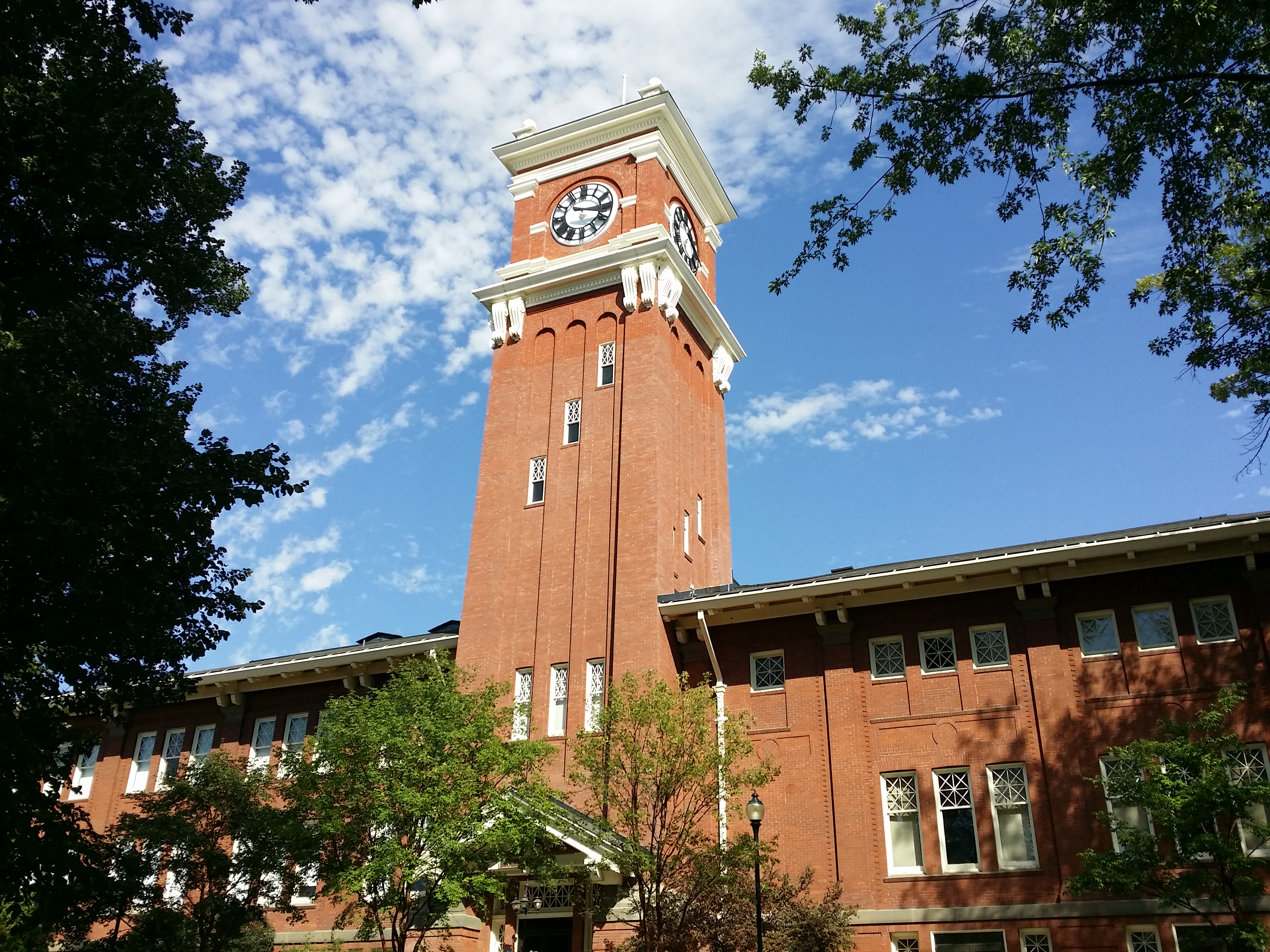 wsu clock tower